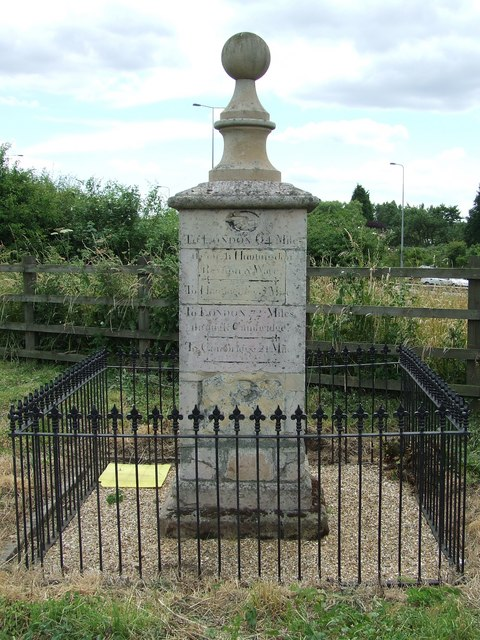 To London 64 miles. Old milestone on what was the Great North Road A1, now bypassed by the A1(M) as seen in the background near to Alconbury, Cambridgeshire. For other photo see 870660 for more info